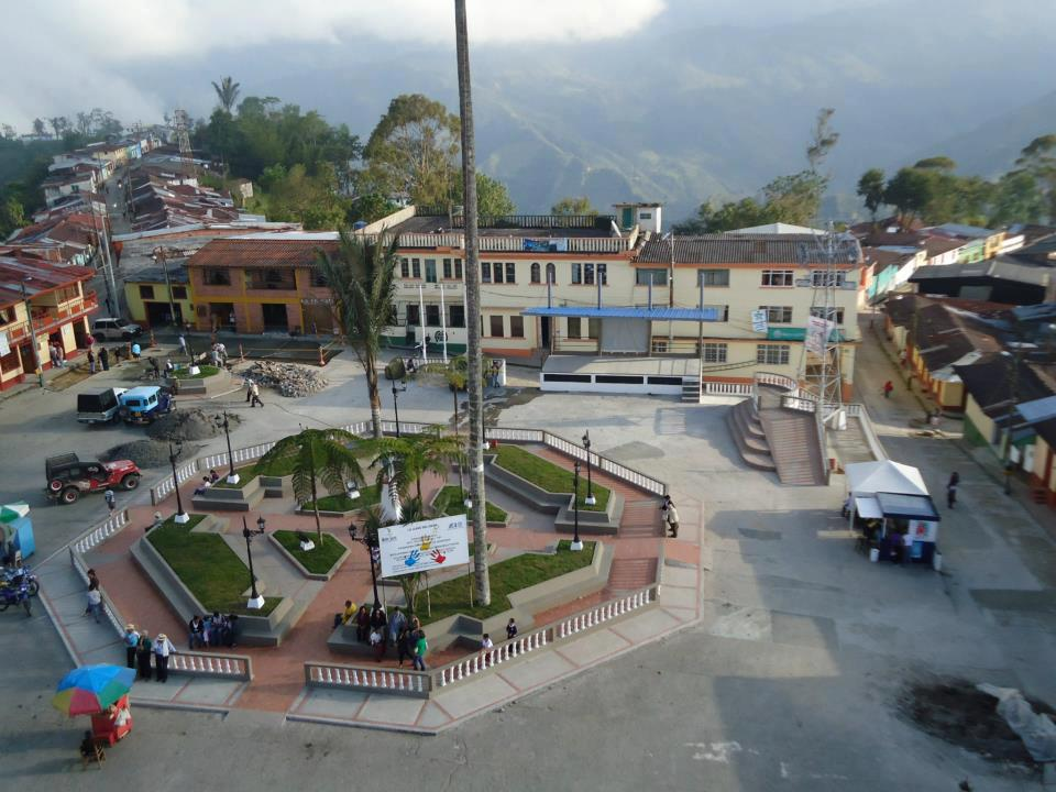 Herveo